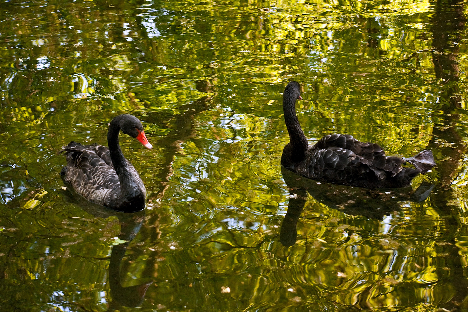 Two Black Swanss at Cismigiu Gardens, Bucharest, Romania.